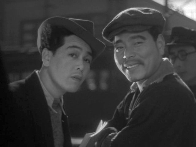 Shin'ichi Himori and Takeshi Sakamoto in Kagiri naki hodo (限りなき舗道) directed by Mikio Naruse - 1934